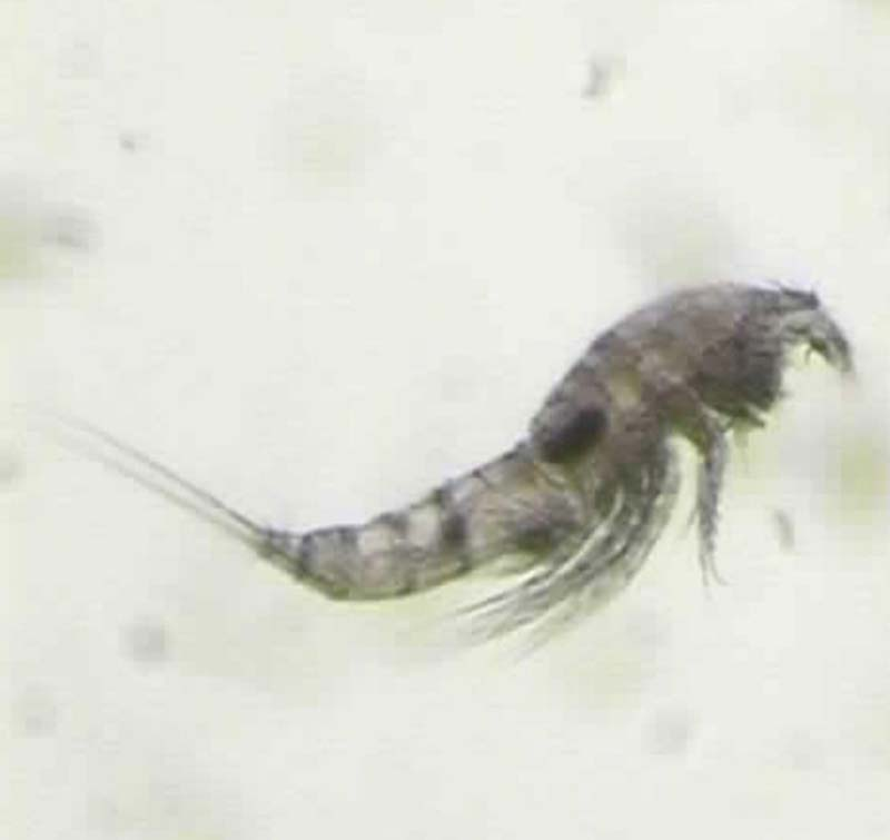 Harpacticoid copepod found in the residual water of a NOBOB ballast tank in 2001.